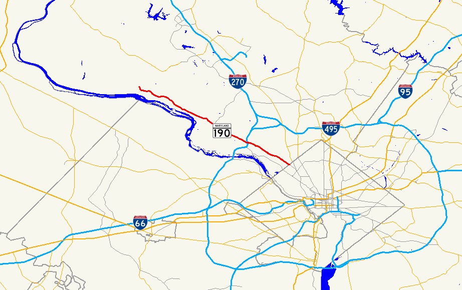 Map of Maryland Route 190